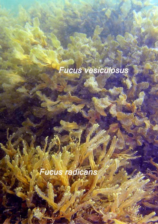 Fucus radicans and F. vesiculosus living in sympatry without any environmental discontinuity in the SW Gulf of Bothnia (northern Baltic Sea).